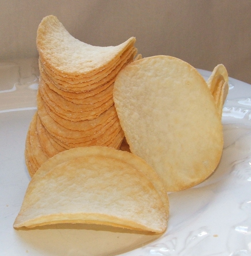 Pringles chips (sour cream and onion flavor)